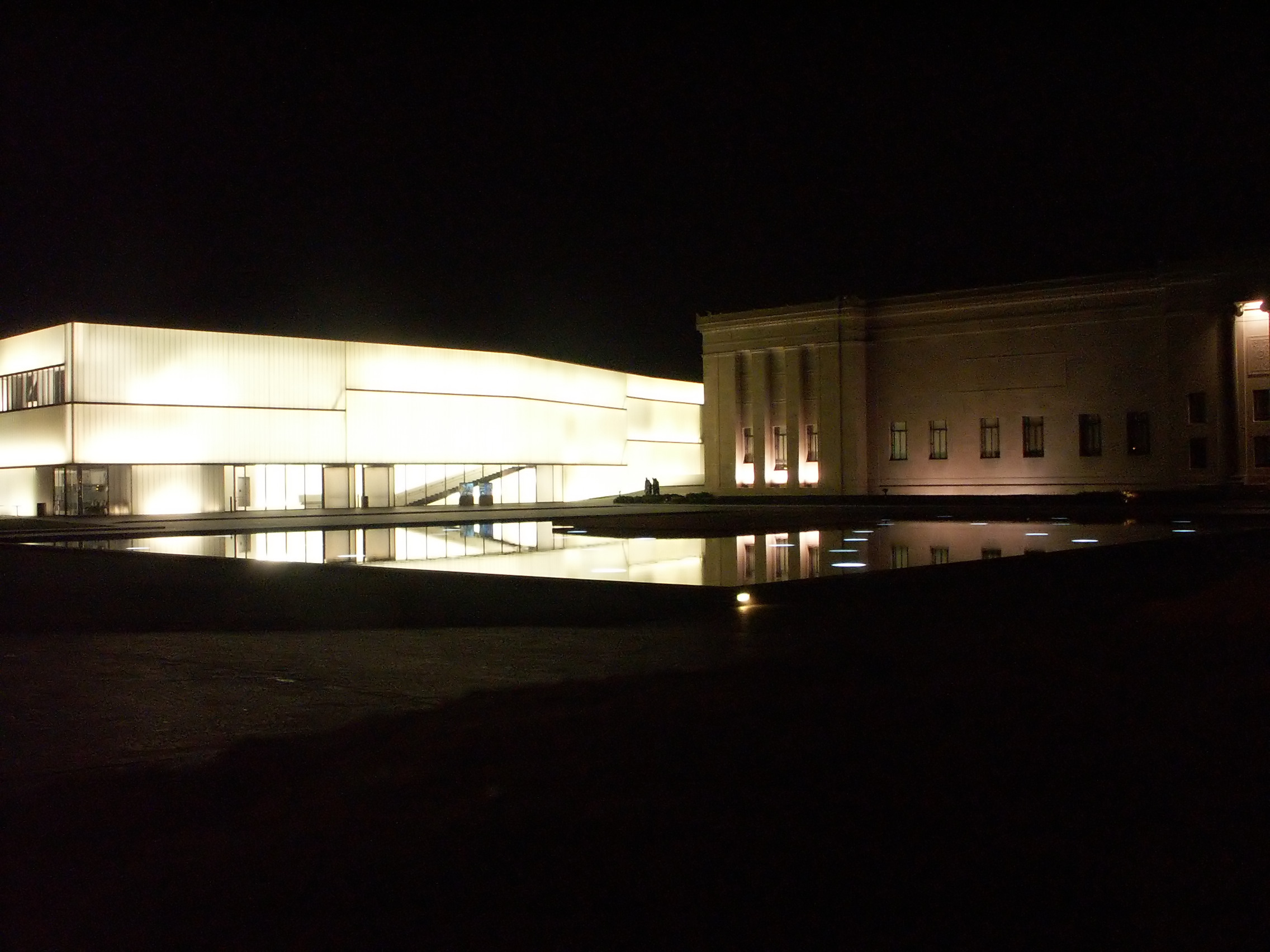 Nelson Art Gallery Bloch Building at night with the new "lens" addition. Photo by poster in September 2007.